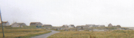 Hougharry, or Hogha Gearraidh, is a tiny village in the westernmost part of the isle of North Uist, Outer Hebrides, situated north of Baile Raghnaill (Balranald).